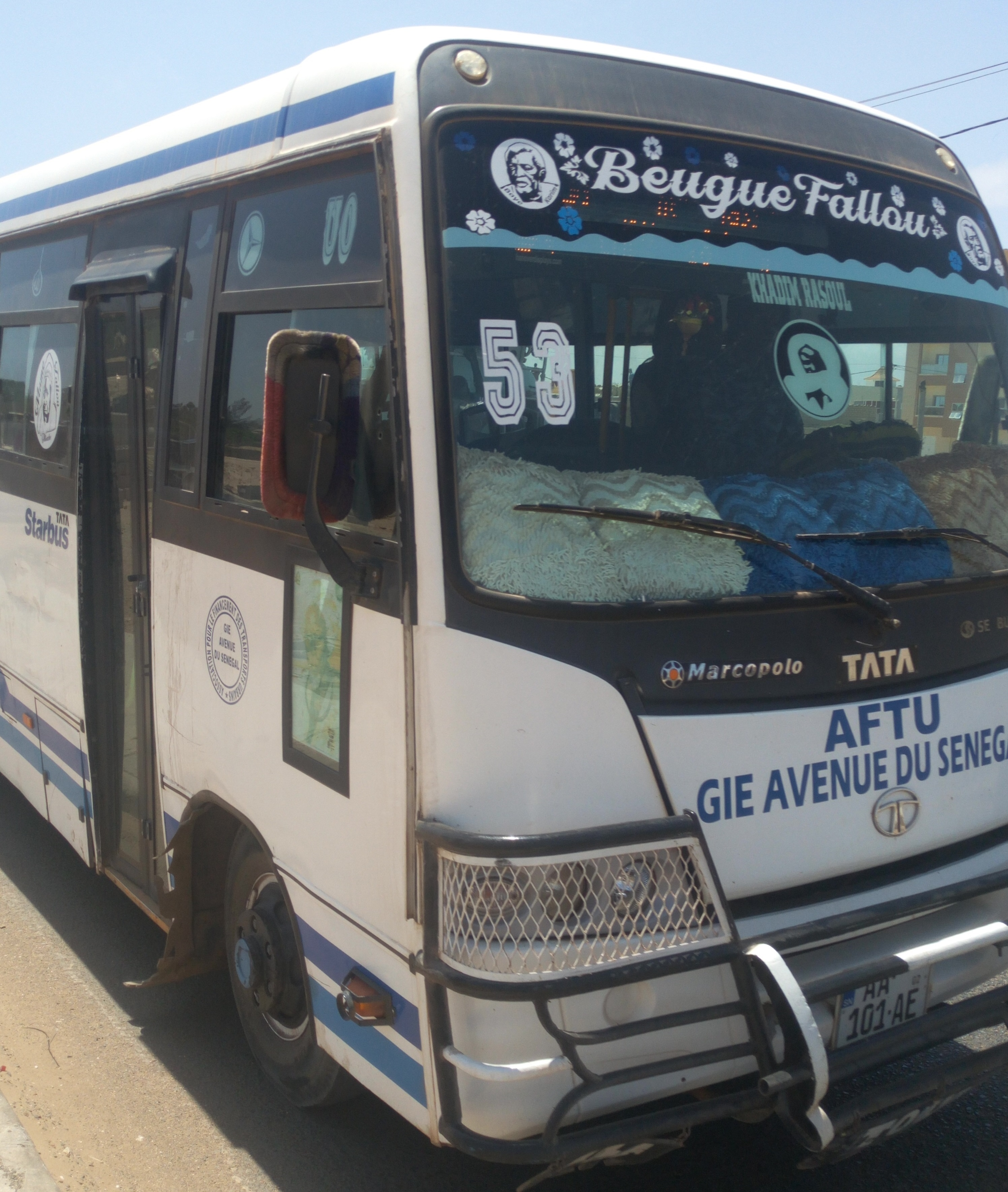 Bus on line 53 of AFTU (Association of Financing of Urban Transport Professionals) in Senegal often called "Tata" by users because of the brand of cars. It is the largest bus network in Senegal. These buses are easily recognizable thanks to their colors. This is an image with the theme "Africa on the Move or Transport" from: Senegal